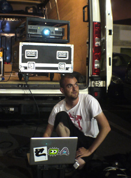 Benjamin Gaulon setting up de Pong Game